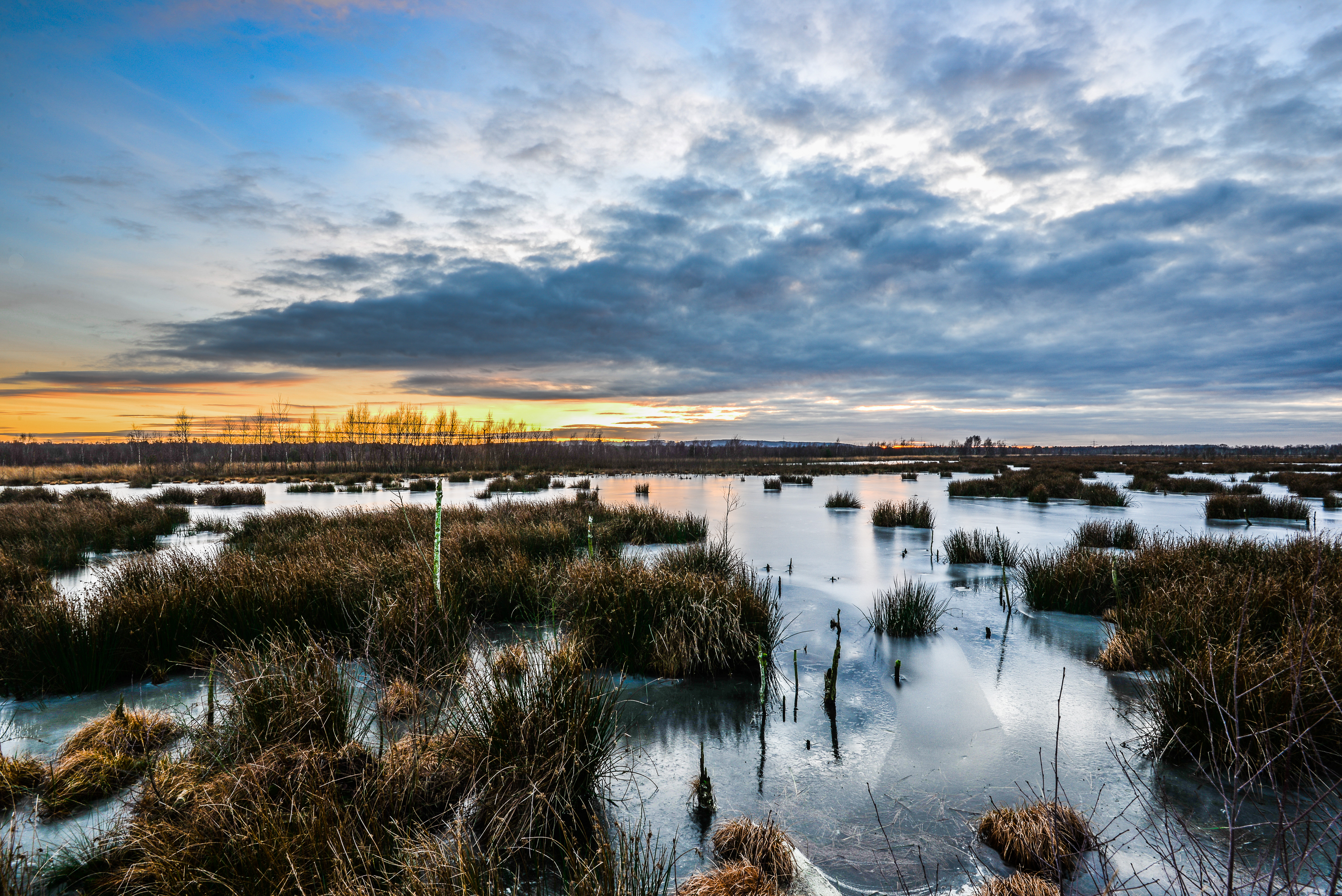 Venner Moor im Sonnenuntergang. Das Venner Moor ist ein 220,0 ha großes Naturschutzgebiet in Niedersachsen. Kennzeichen-Nummer NSG WE 140.